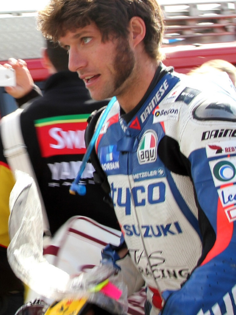 Thursday Practice TT 2013